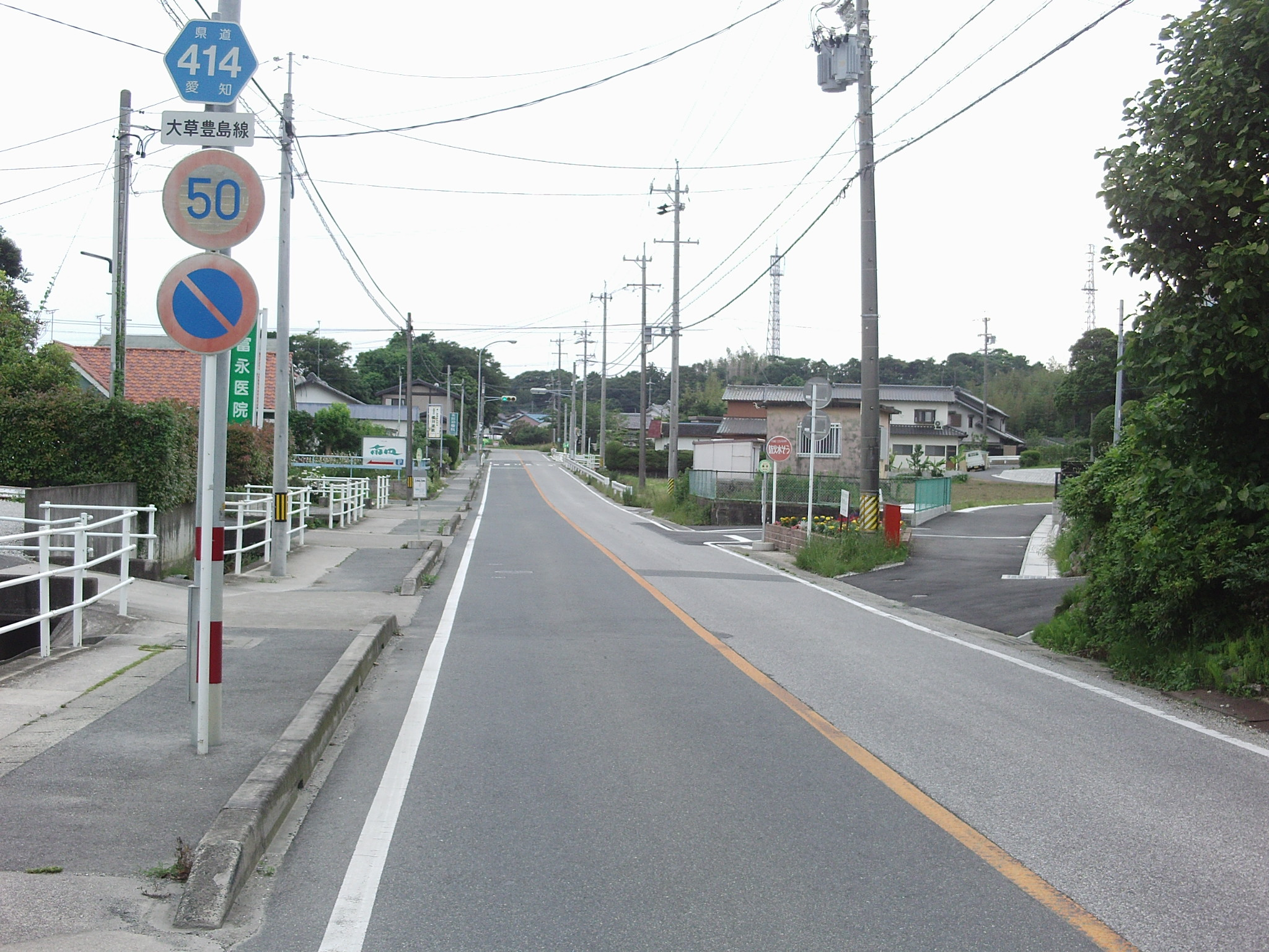 Aichi prefectural road No.414 in Toshimacho, Tahara, Aichi.